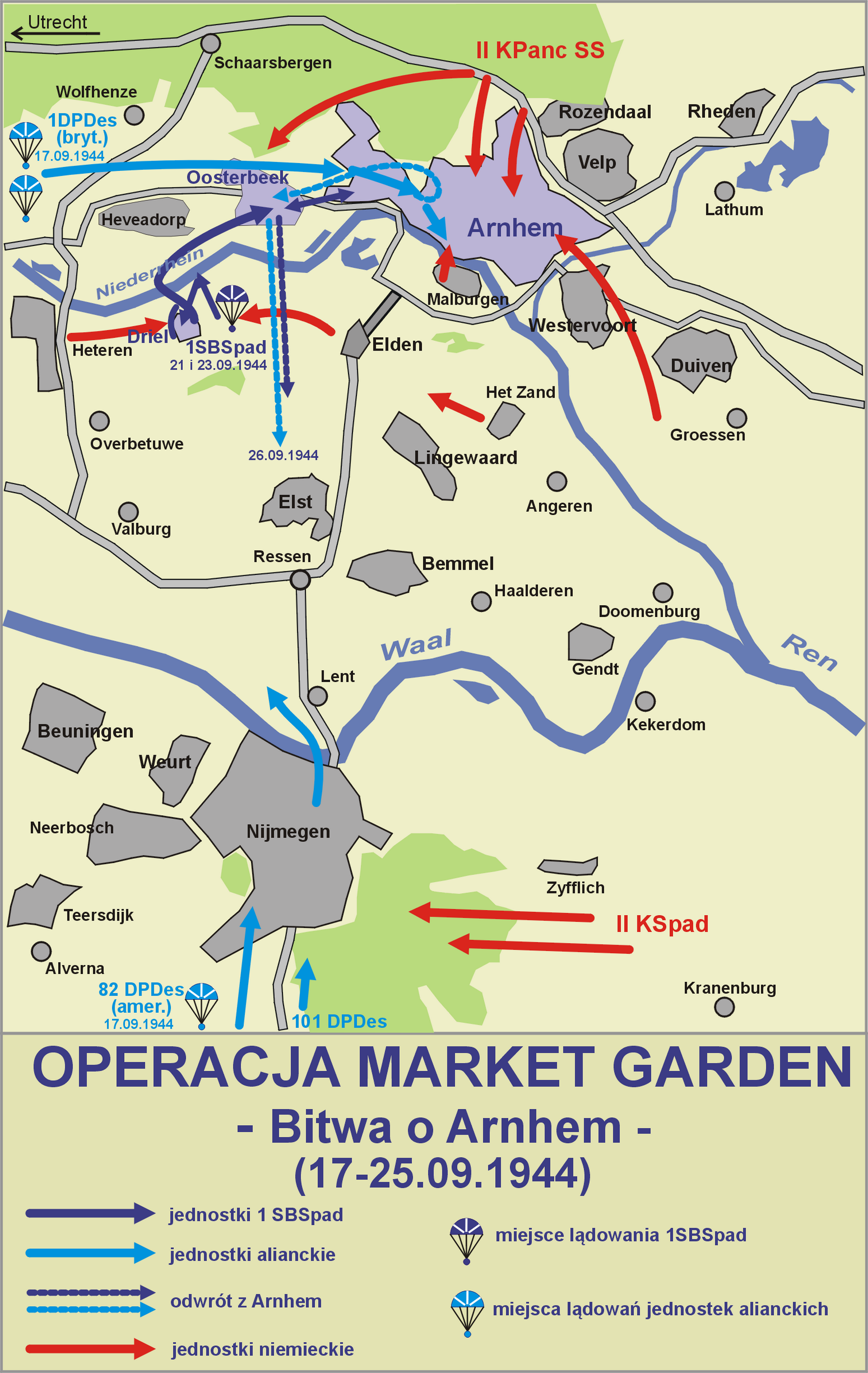 Battle of Arnhem